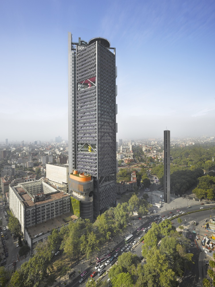 Image property of Roland Halbe